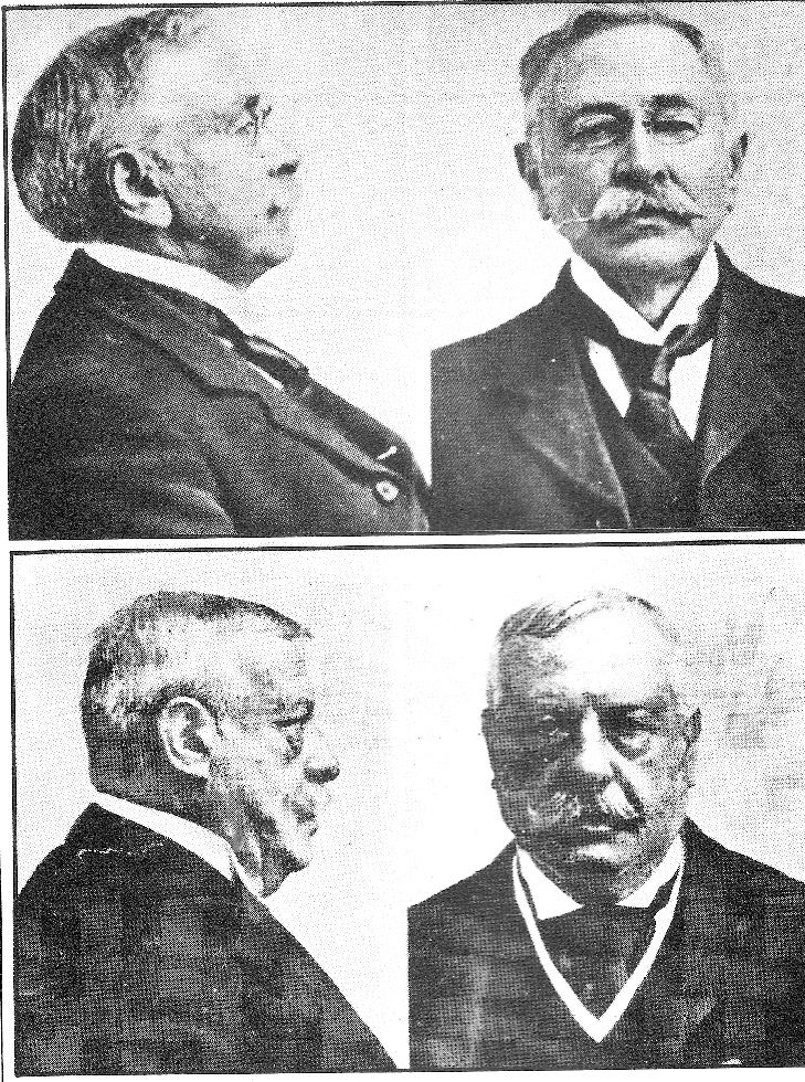 Police mugshots of Adolf Beck (top), wrongly convicted for the crimes of William Meyer (bottom)